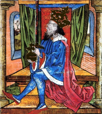 This picture from the Thúróczy Chronicle shows Ladislaus IV of Hungary.